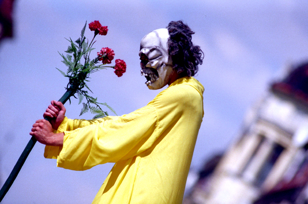 Torun, Poland, street theatre